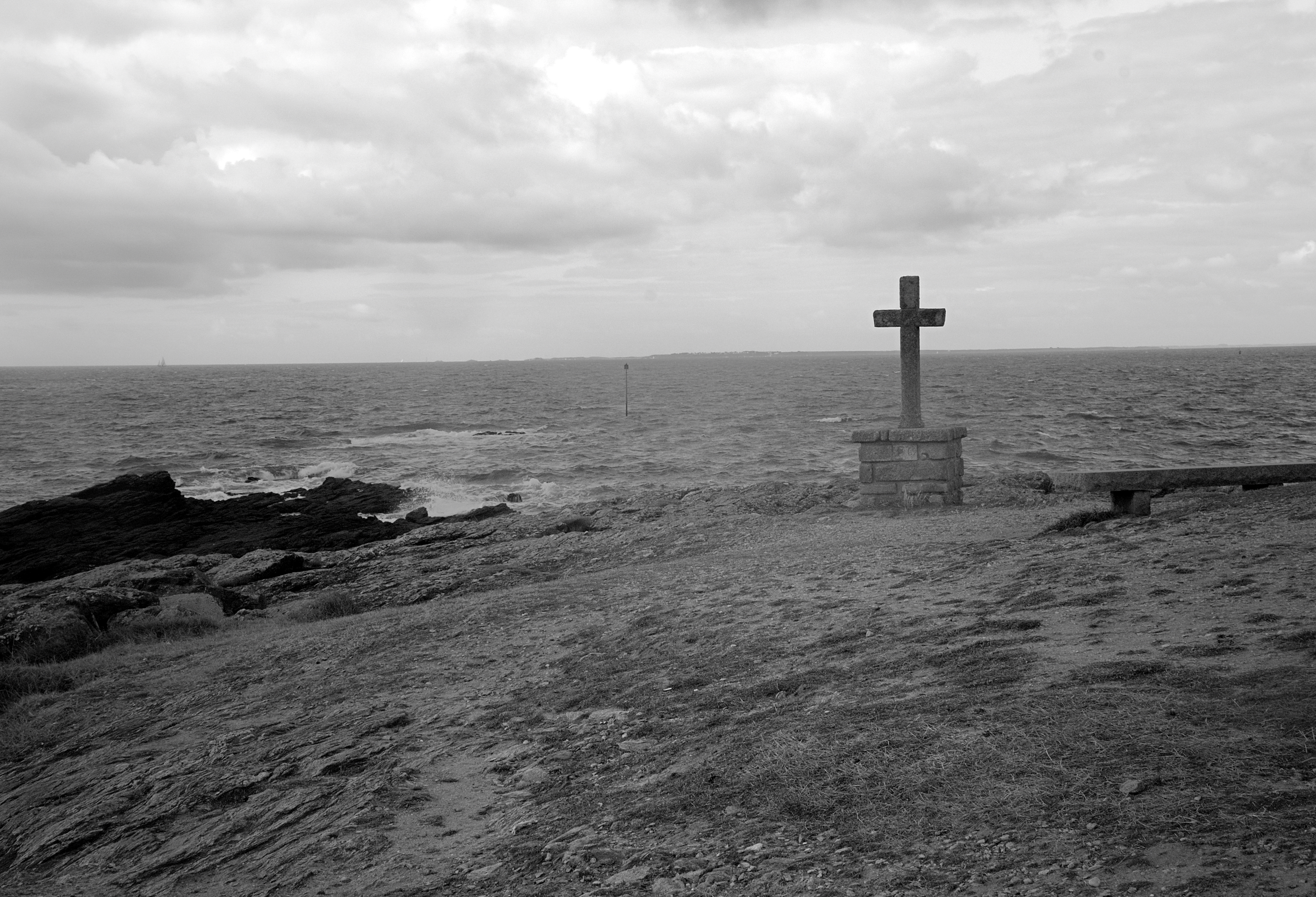 Saint-Gildas-de-Rhuys: cross near "port-aux-Moines" (Morbihan, France)